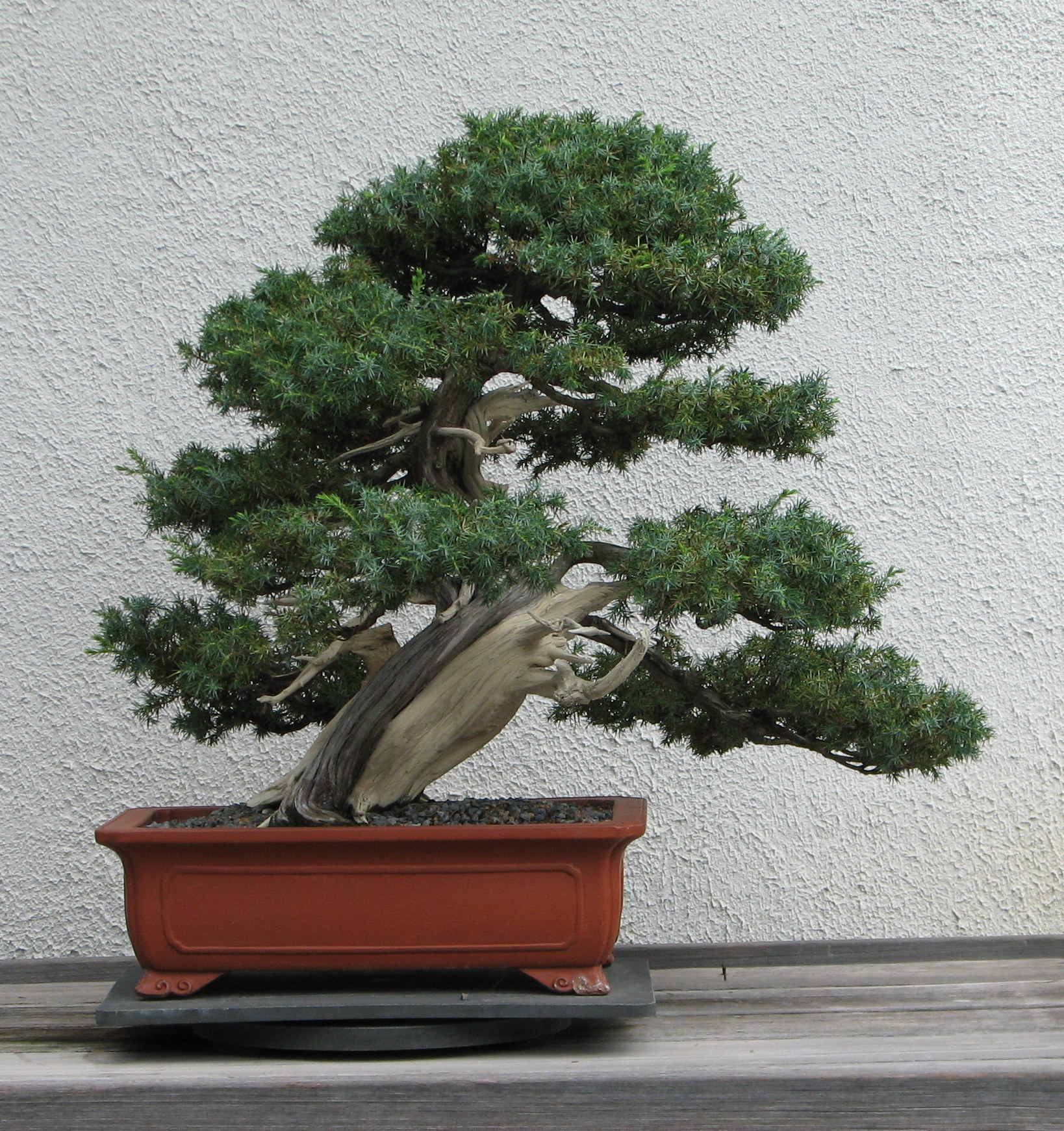 A Japanese Needle Juniper (Juniperus rigida) bonsai on display at the National Bonsai & Penjing Museum at the United States National Arboretum. According to the tree's display placard, it has been in training since 1966. It was donated by Yoshihiko Tsuchiya.